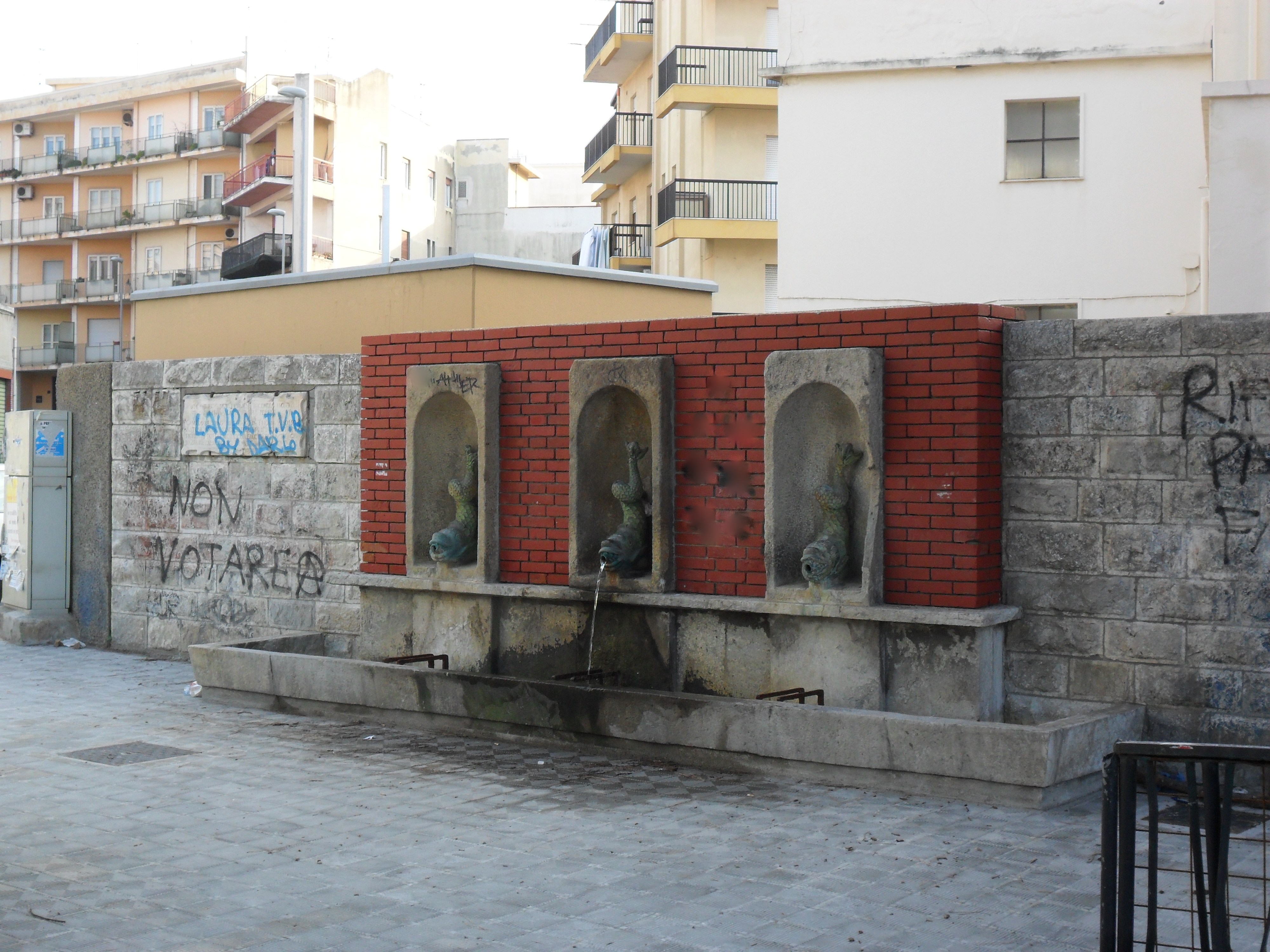 Fountains in Reggio Calabria